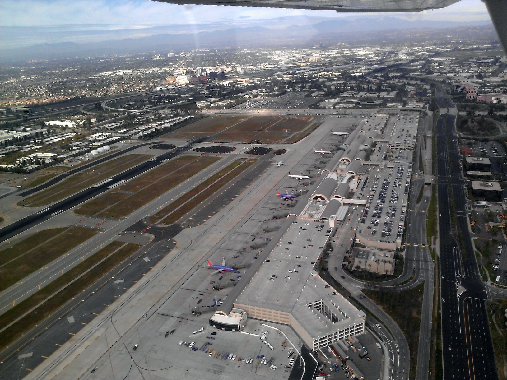 John Wayne Airport Terminal photo d ramey logan